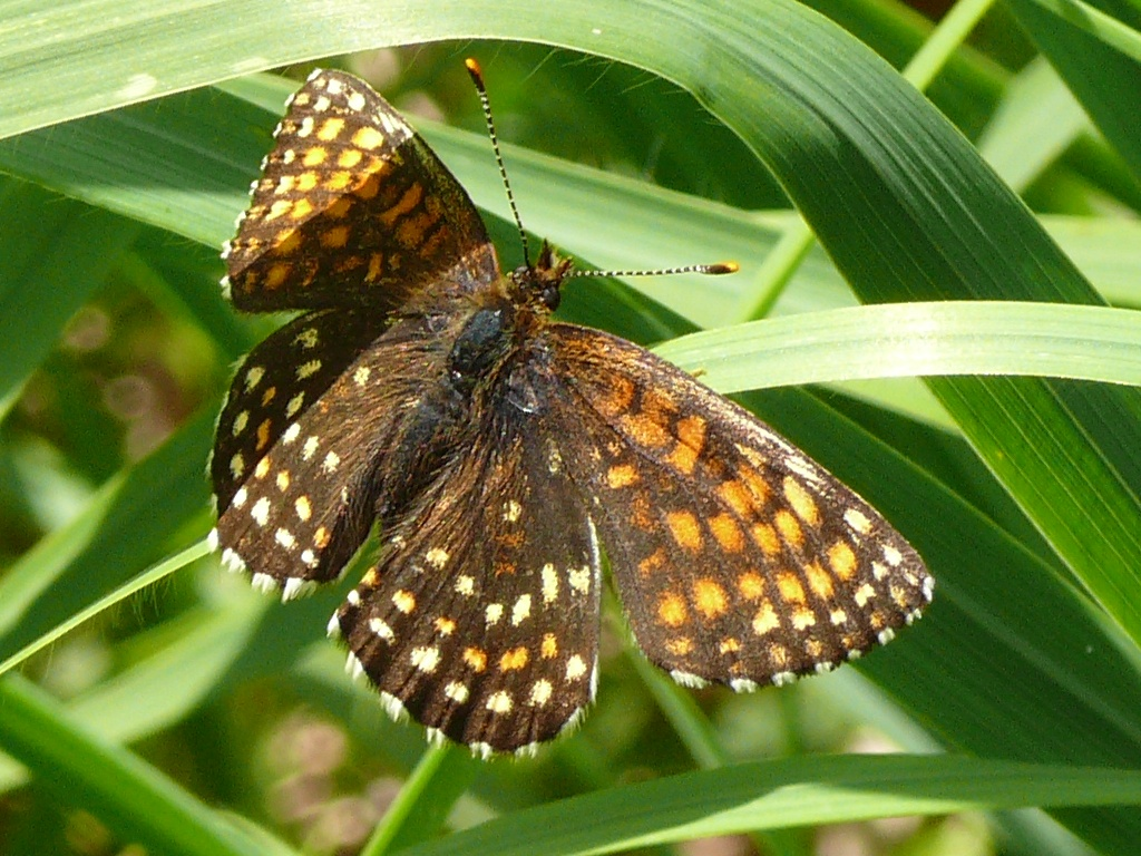 False Heath Fritillary, photographed near Lake Starnberg, Bavaria, Germany